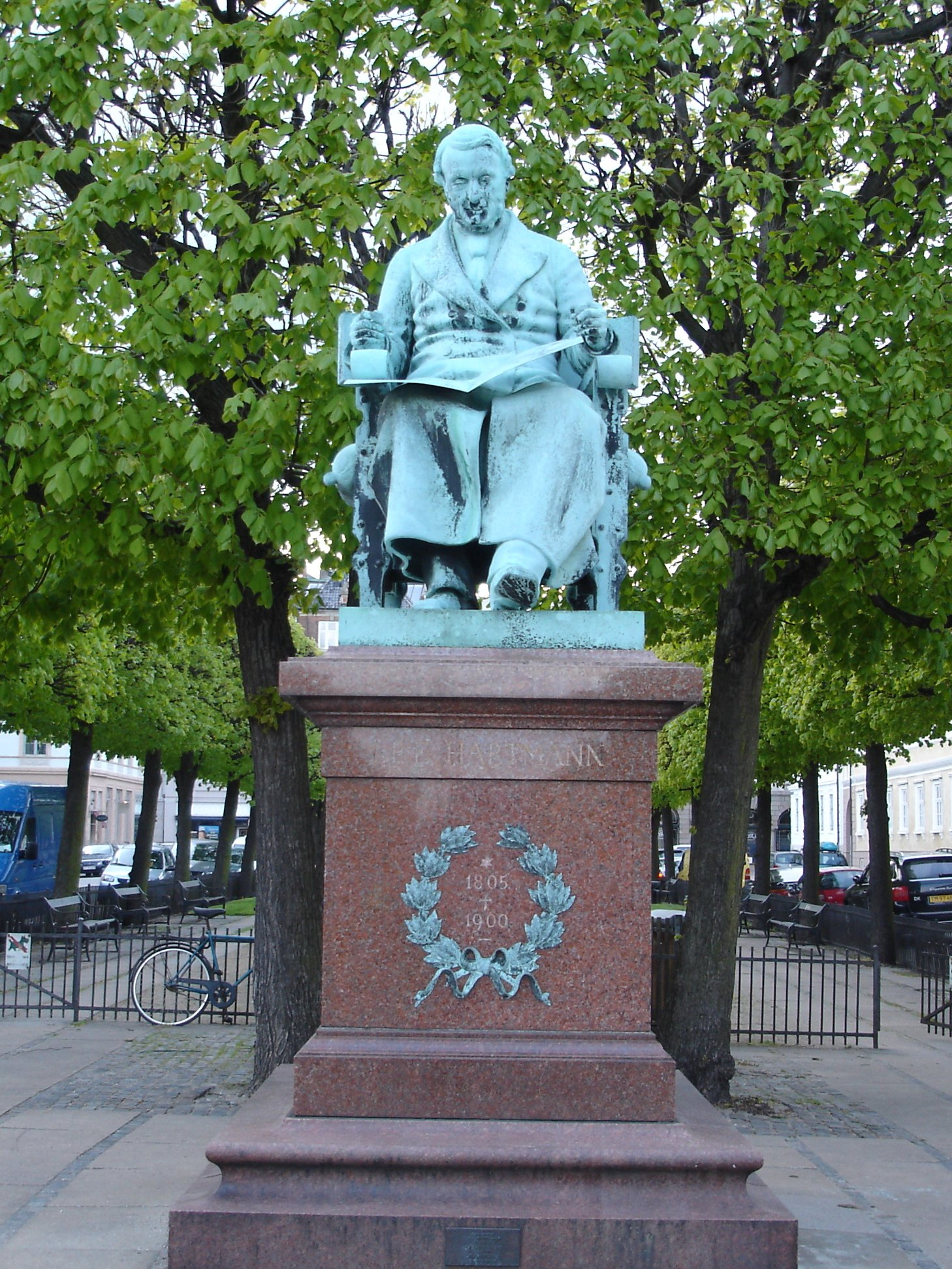 Statue of Johann Peter Emilius Hartmann (1805-1900), Danish composer, father of Emil Hartmann. Made by danish sculptor August Saabye Location: Sankt Annæ Plads, Copenhagen, Denmark